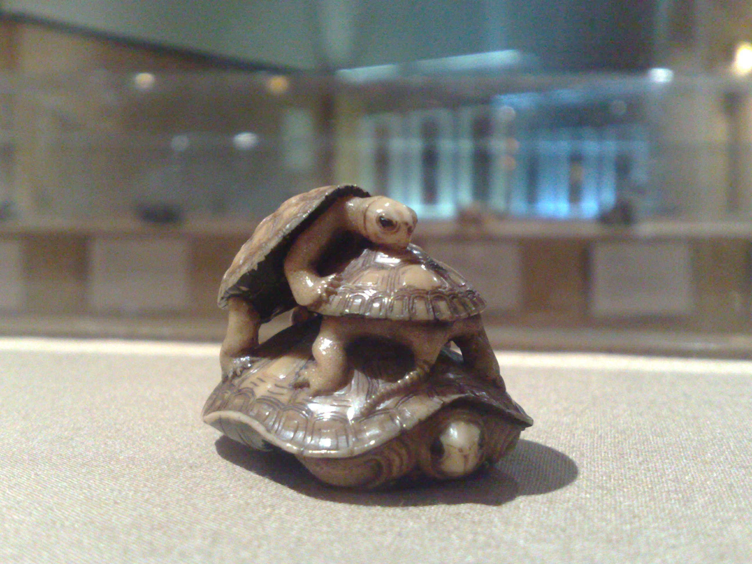 Shukosai Anraku (Japan, died N/A) Turtle Group, mid-19th century Netsuke, Ivory with dark staining, sumi, inlays, 1 1/4 x 1 5/8 x 1 in. (3.1 x 4.1 x 2.5 cm) Raymond and Frances Bushell Collection (AC1998.249.147) Wikipedia Loves Art at the Los Angeles County Museum of Art This photo of item # AC1998.249.147 at the Los Angeles County Museum of Art was contributed under the team name "yokim" as part of the Wikipedia Loves Art project in February 2009. Los Angeles County Museum of Art The original photograph on Flickr was taken by yonghokim—please add a comment to the original Flickr page whenever a use has been made on Wikipedia or another project. Project galleries on Flickr: this institution, this team